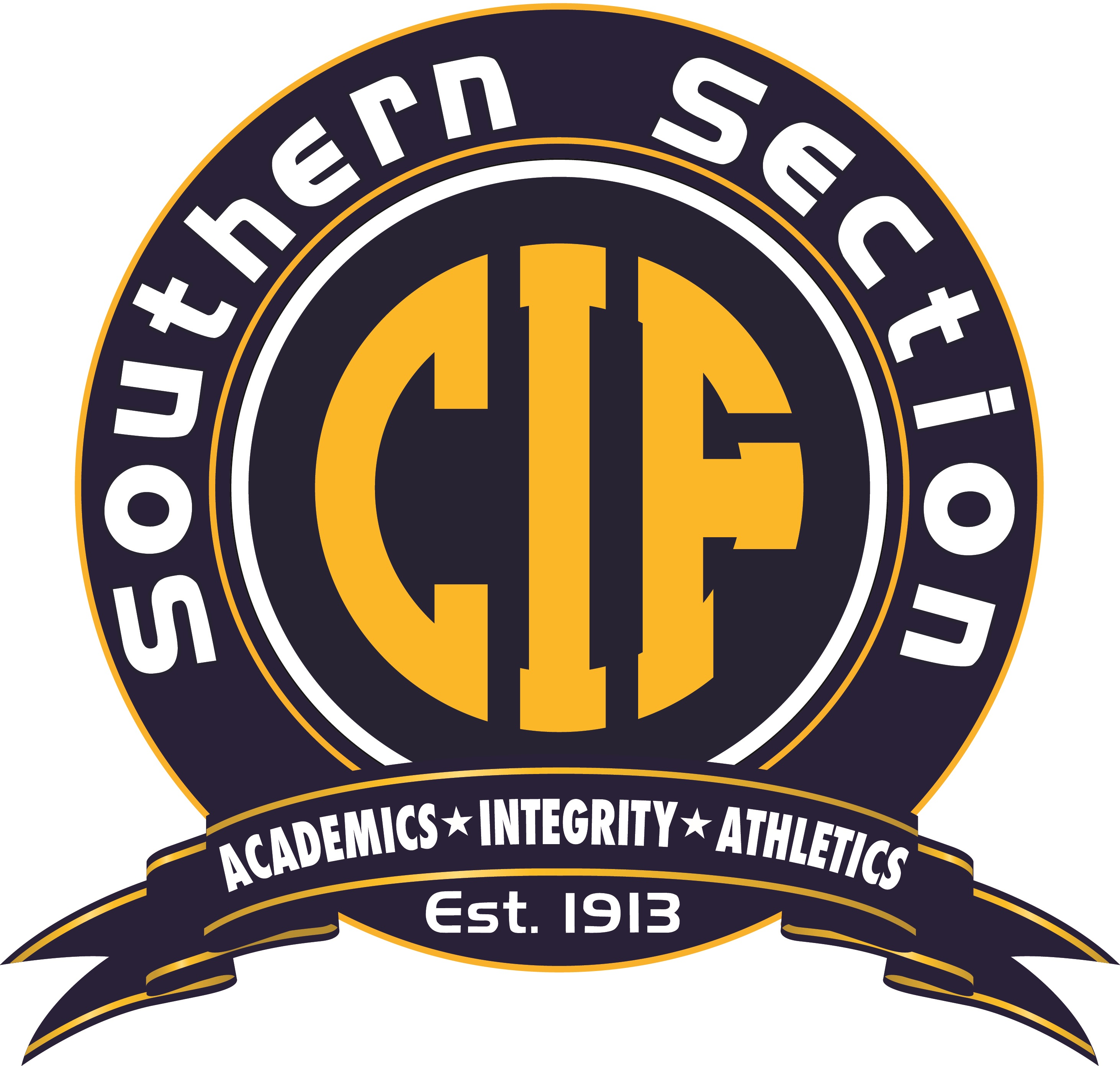 CIF-SS Official organizational logo